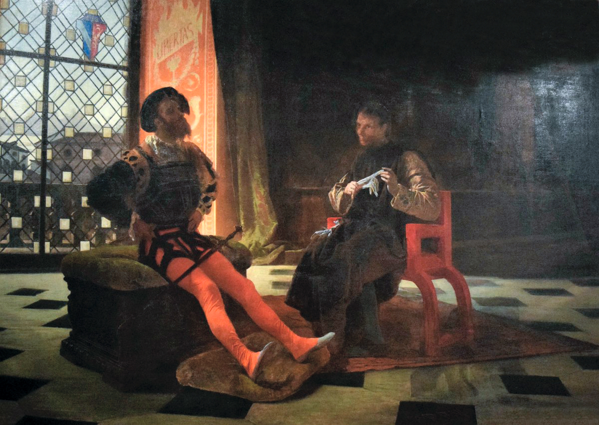 Borgia and Machiavelli. The work won the gold medal at the 1867 Paris International Exhibition (Exposition universelle à Paris).